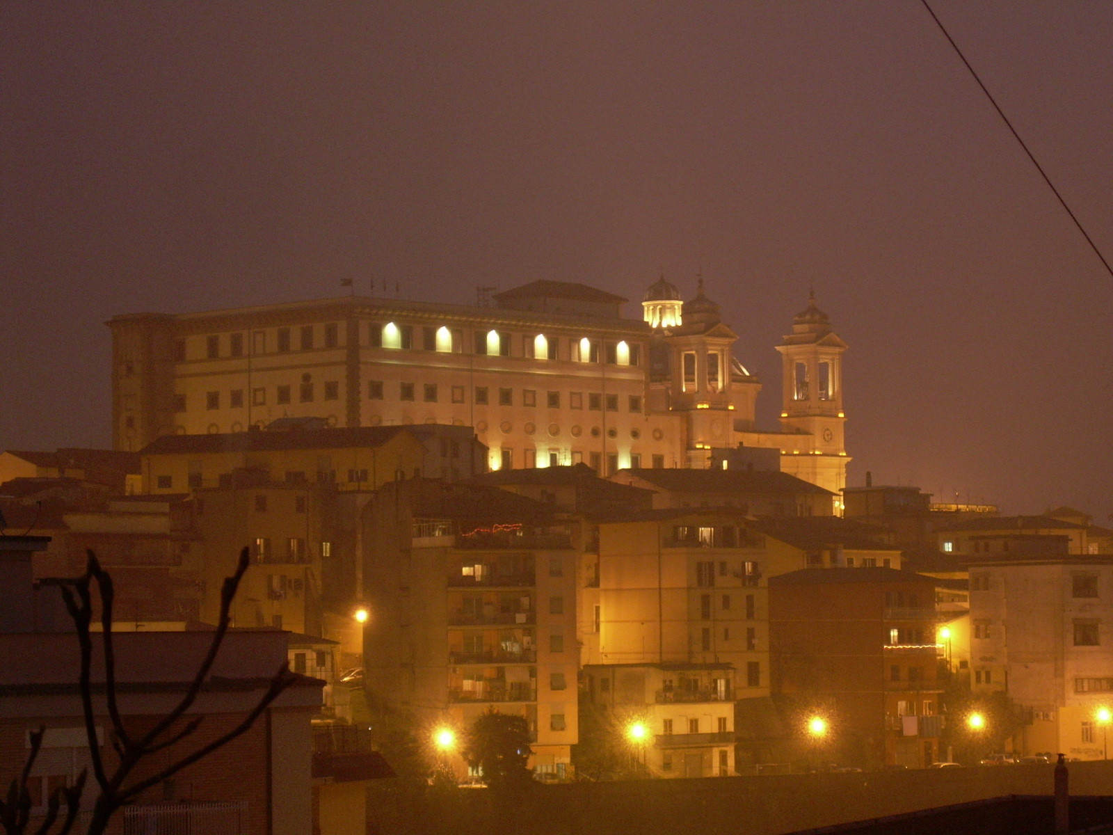 Oldtown Valmontone as seen by Colle Sant'Angelo